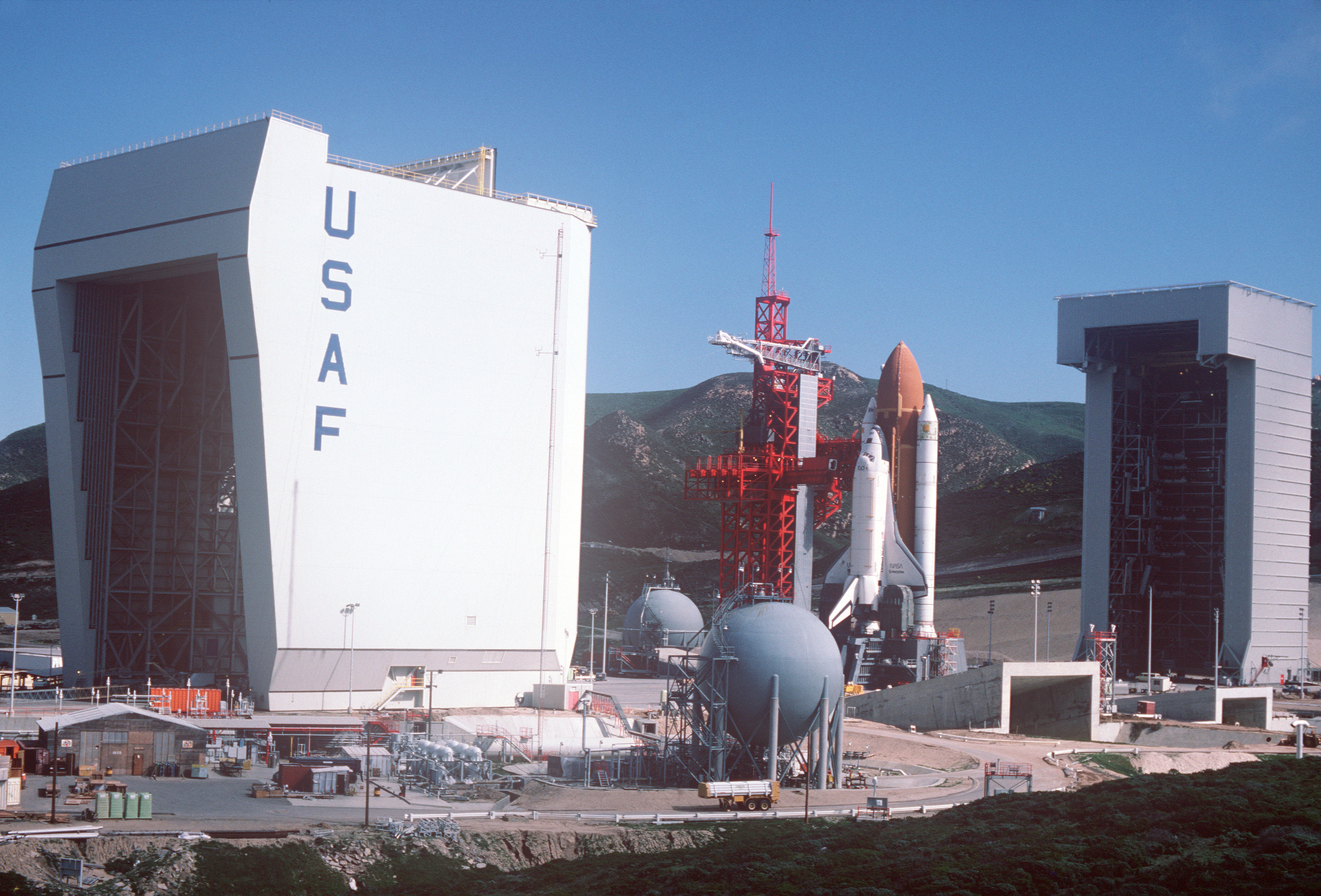 A view of NASA Space Shuttle Orbiter OV-101 Enterprise on the launch tower at Vandenberg AFB Space Launch Complex 6 as it would appear prior to launch. The Enterprise is not equipped to be launched but is being used as a model at the newly constructed space shuttle launch facilities.